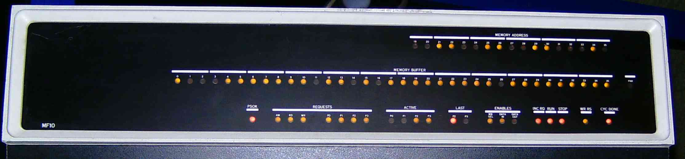 Light Panel of DECsystem10 Memory Cabinet MF10